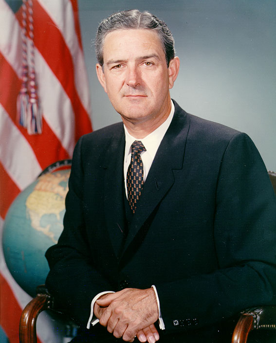 Fmr. Texas Gov. John Connally photograph (taken as Secretary of the Navy)